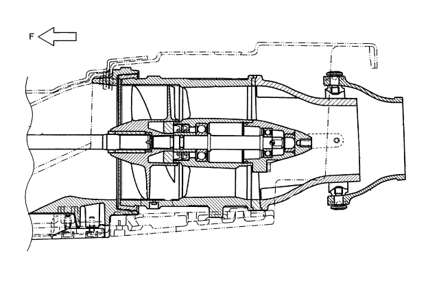 Pump jet source: adapted from US Patent #6682373 Pud 23:24, 1 Aug 2004 (UTC)